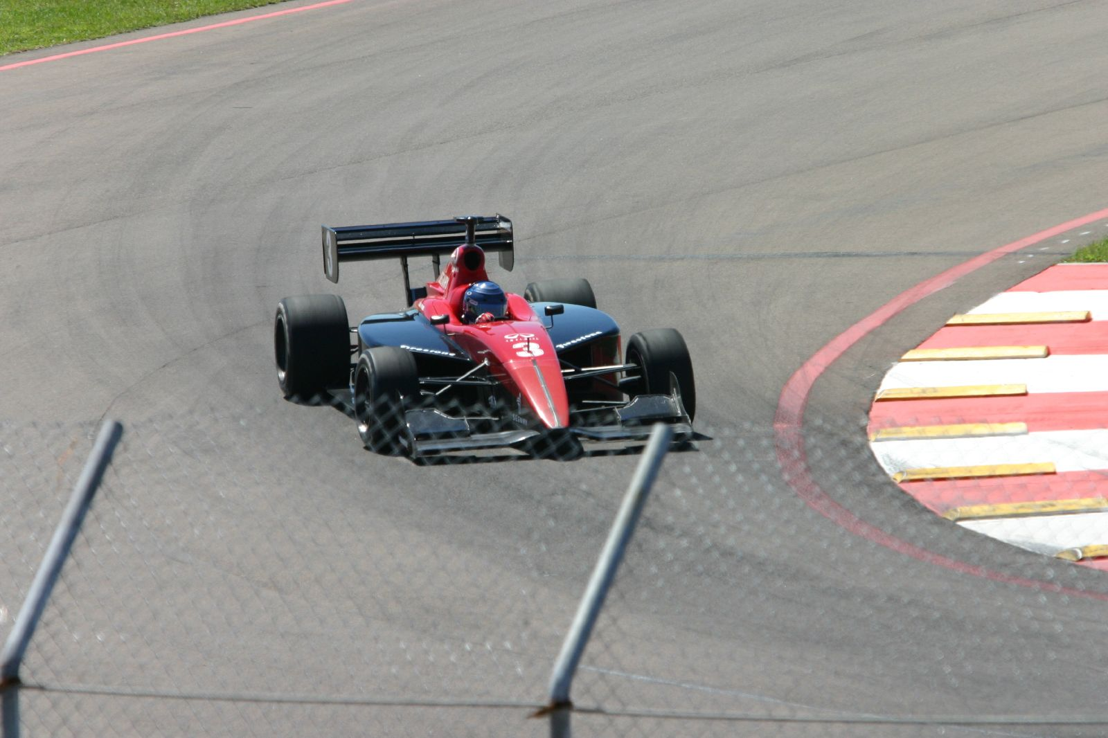 #3 - Al Unser III at St. Petersburg in 2005 Brian Stewart Racing Started - 7th Finished 4th